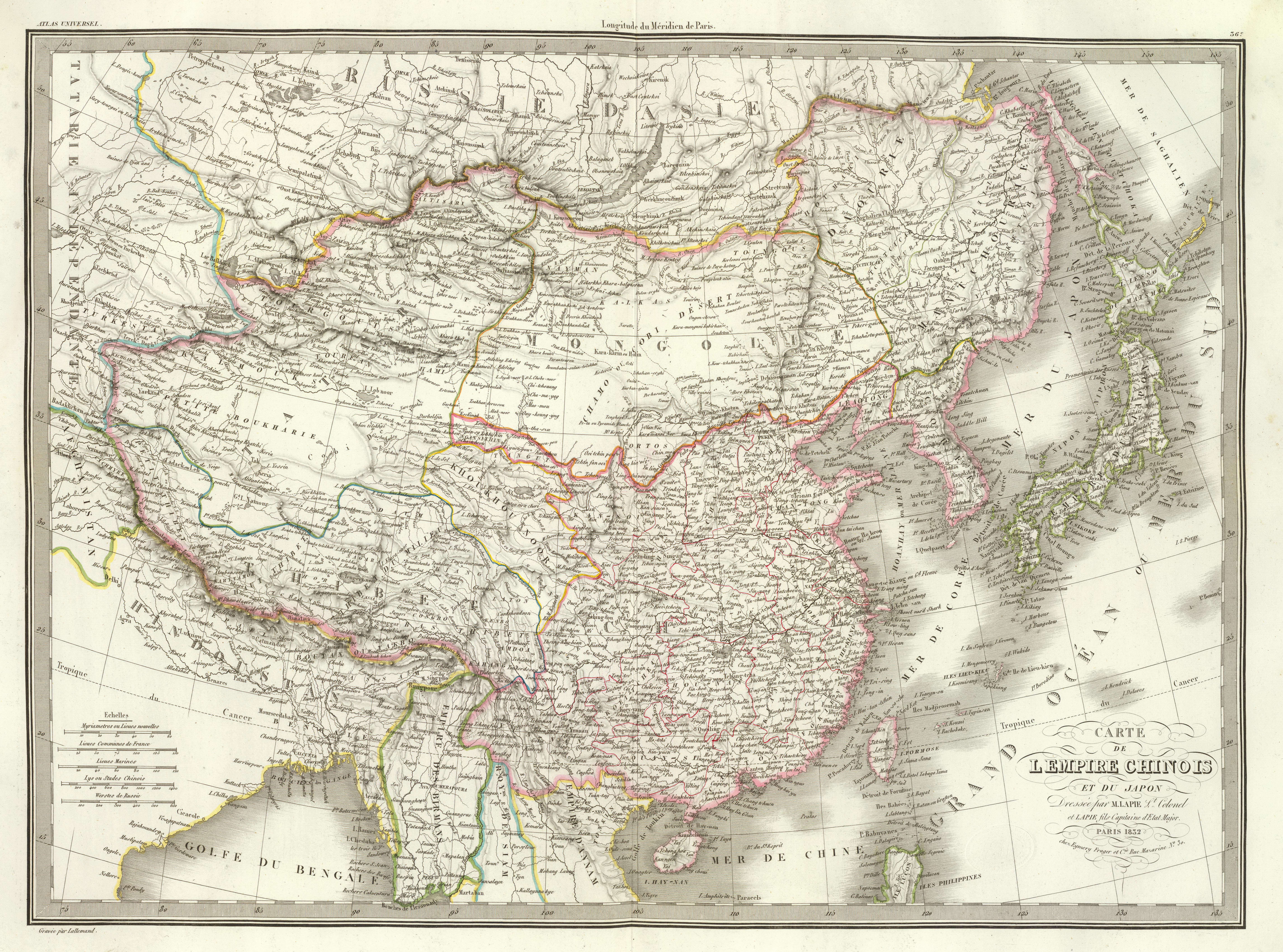 1832 French map of China and Japan by Lapie, Alexandre Emile; Lapie, M. (Pierre); published by Eymery Fruger et Cie in Paris.